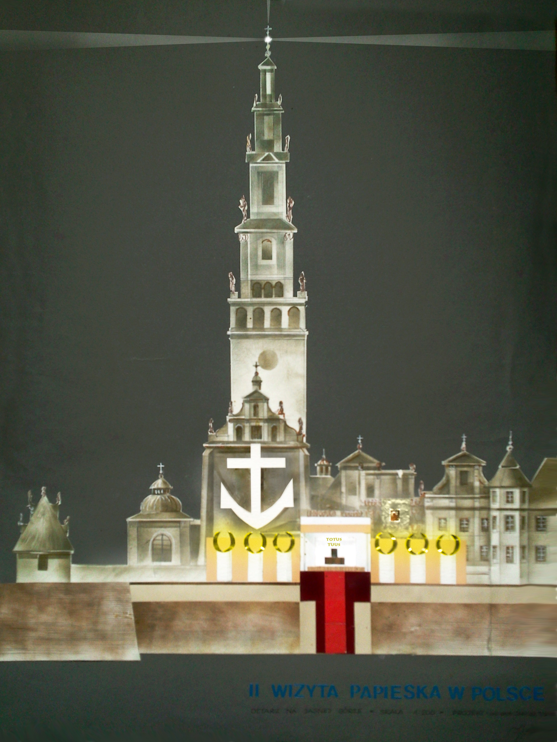 Project of Papal Altar at celebration of the main ceremony 2nd Apostolic Journey of Pope John Paul II to Poland, associated with the Jubilee presence of the 600th anniversary of the Miraculous Image of Our Lady of Jasna Gora 9, 18-19 June 1983. Designer: Ing. Janusz Tofil